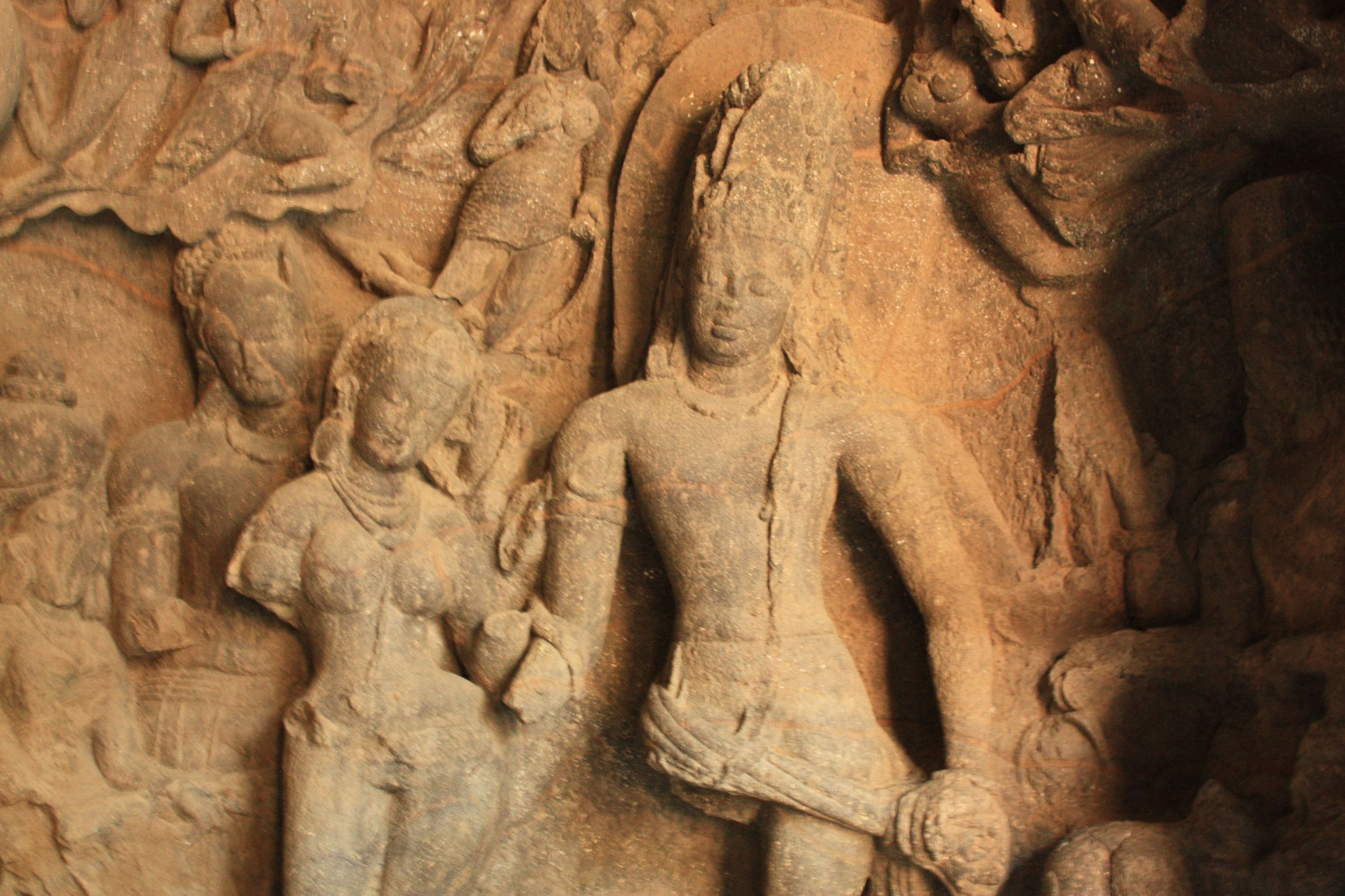 Elephanta Caves. Shiva-Parvati